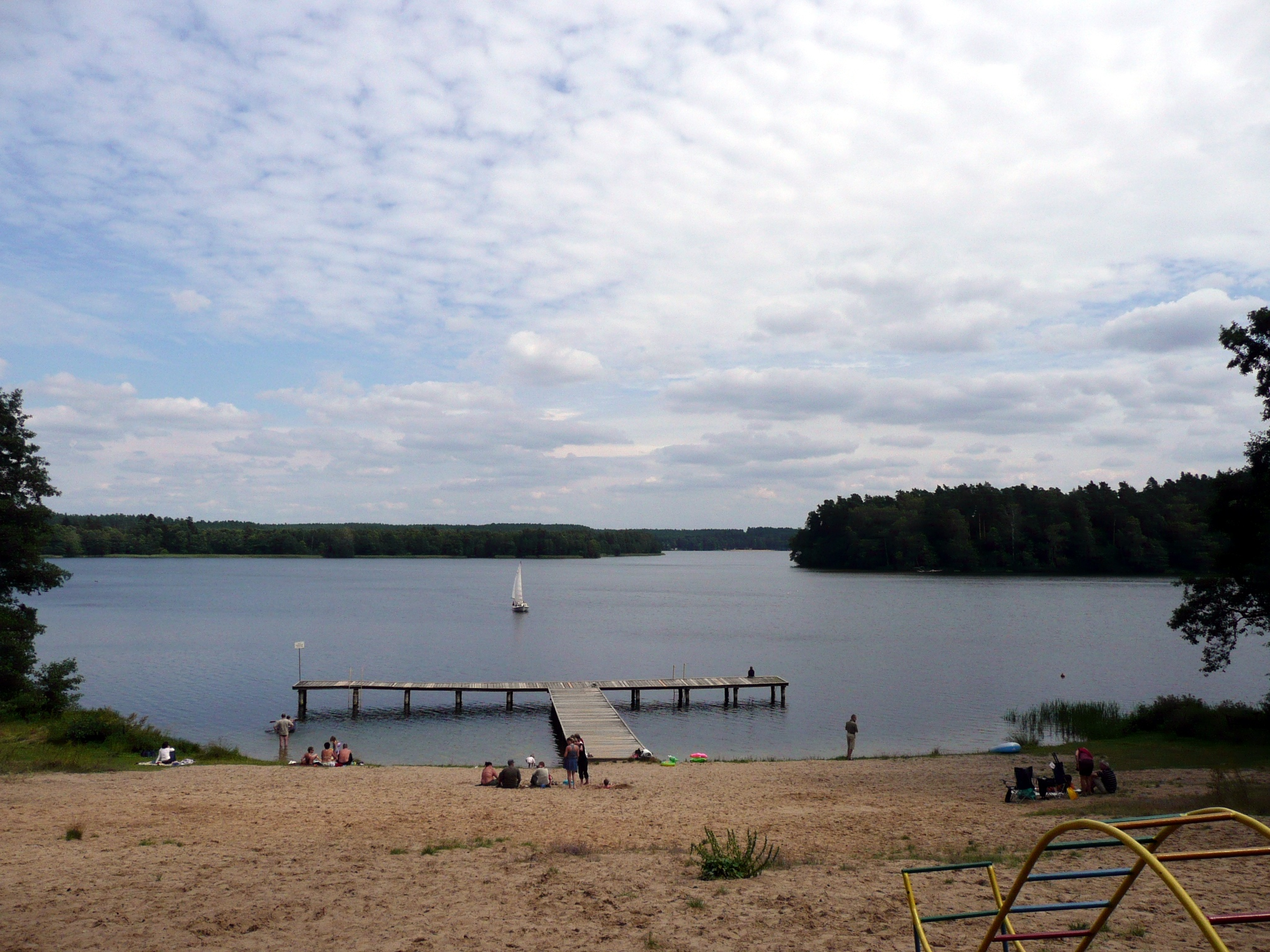 Lake Wielkie Partęczyny, Poland.